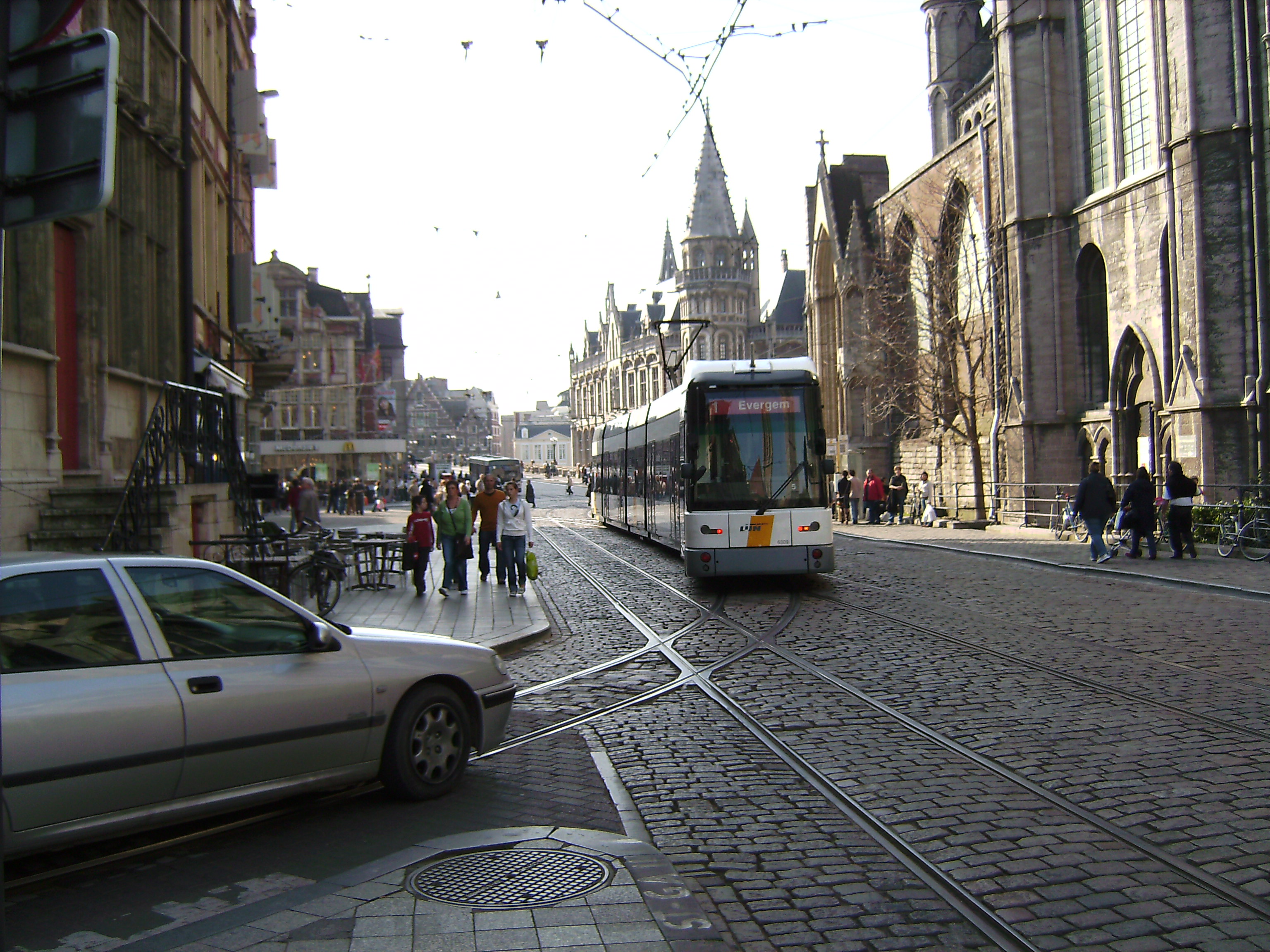 Same place as here, but 41 years later